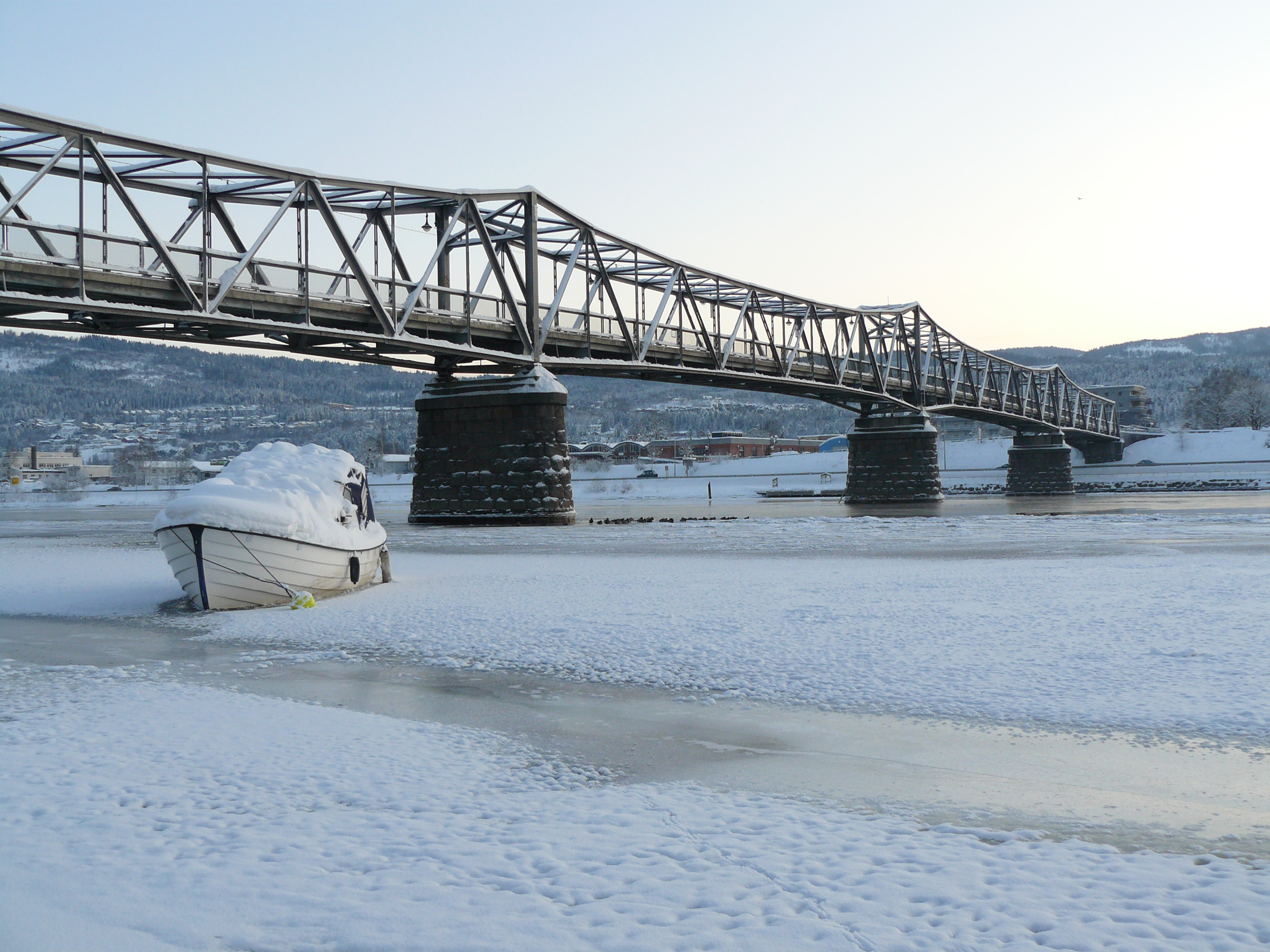 Mjøndalsbrua from Krokstadelva towards Mjøndalen.